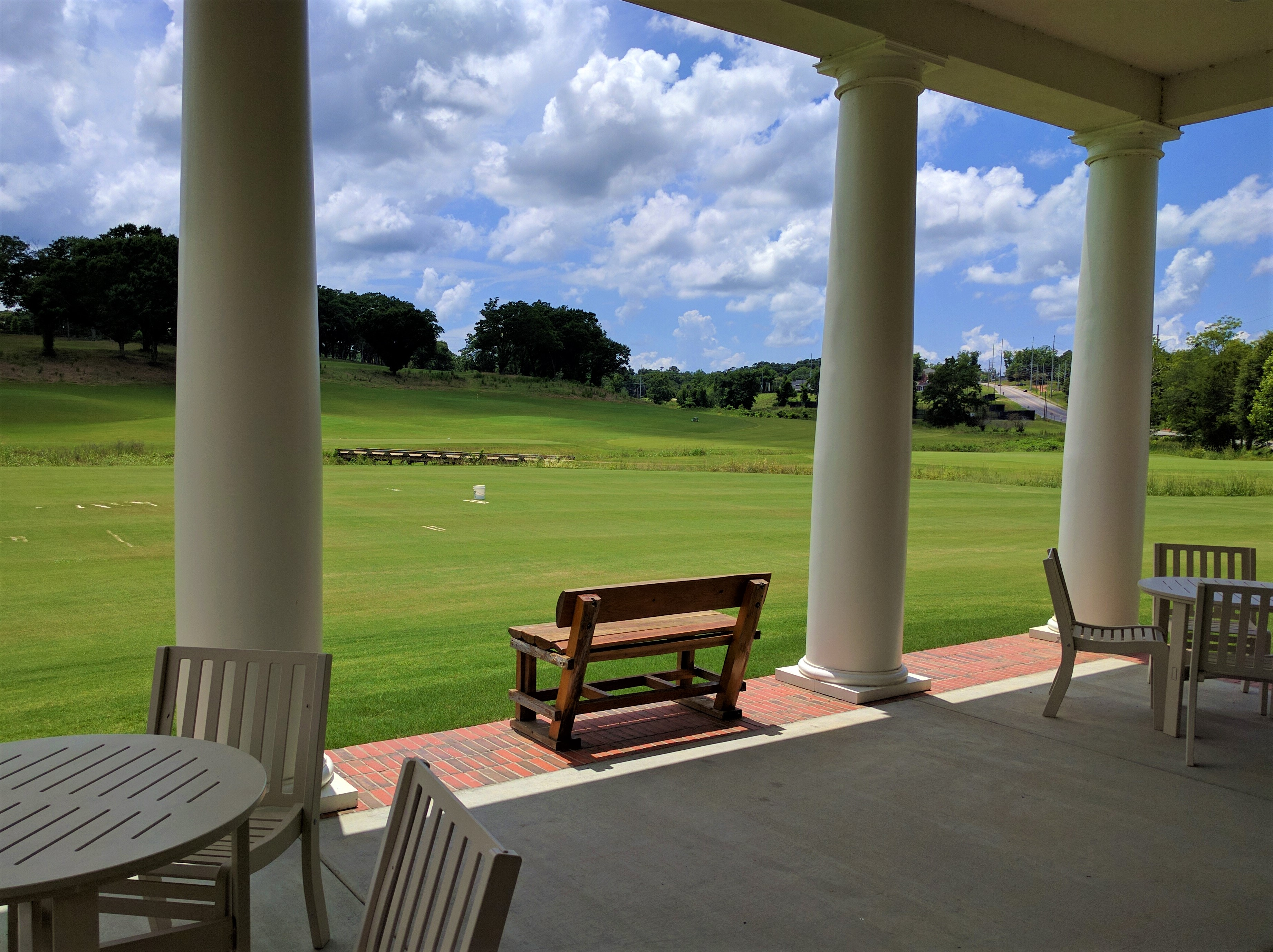 Lounge area at the back of the Troy Golf facility.